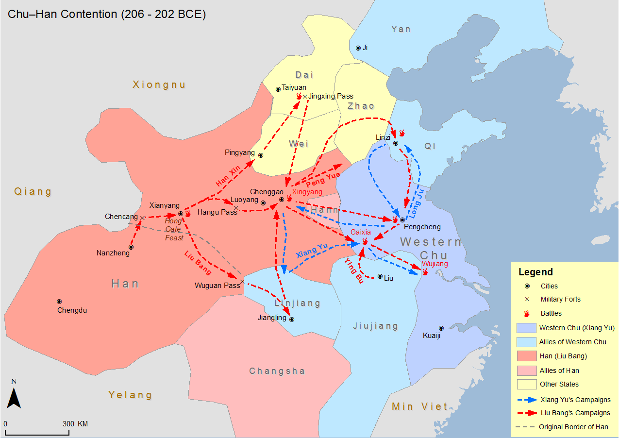 Map of Chu-Han Contention between Qin and Han dynasties.